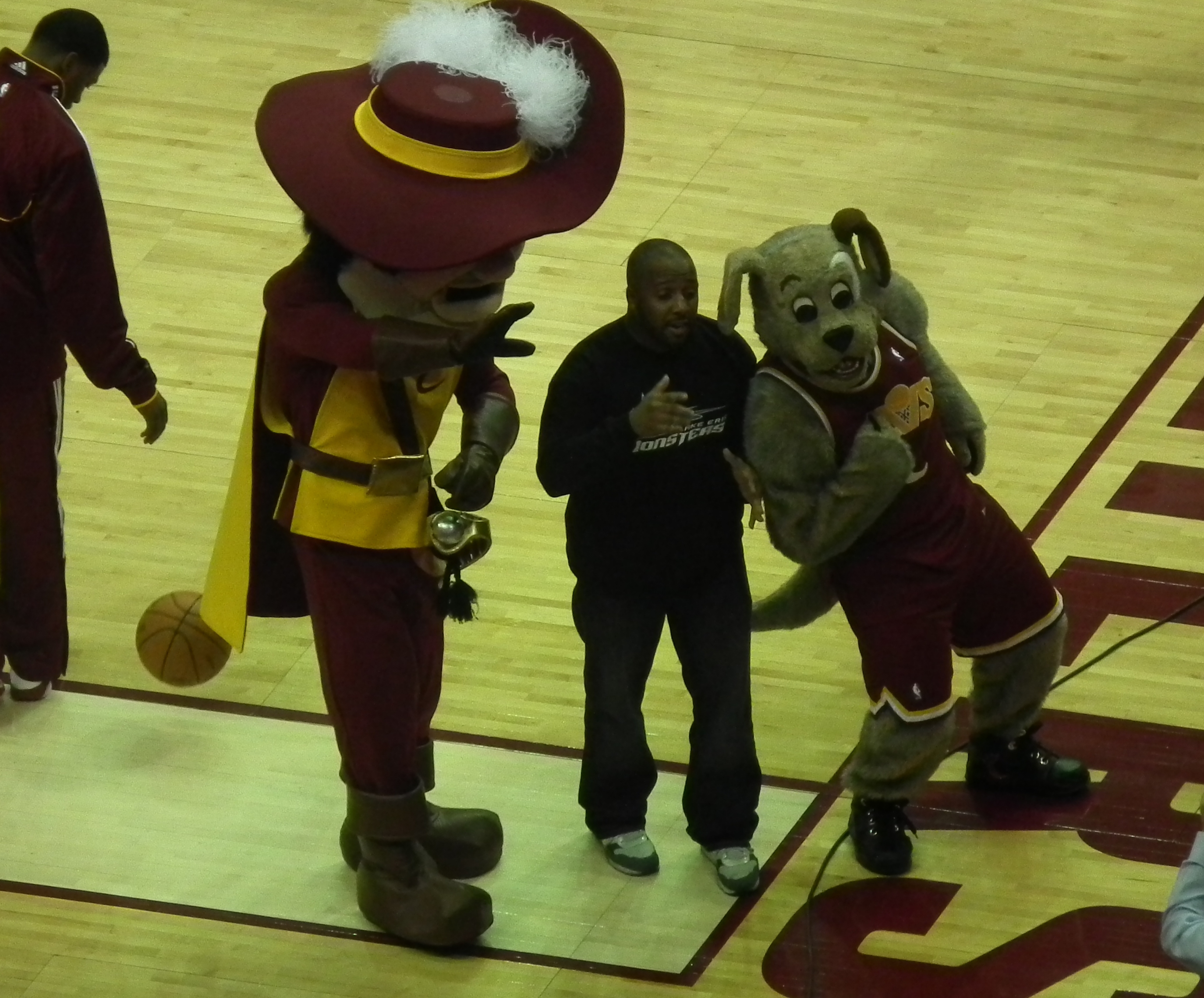 Sir CC and Moondog at a January 2011 Cleveland Cavaliers game